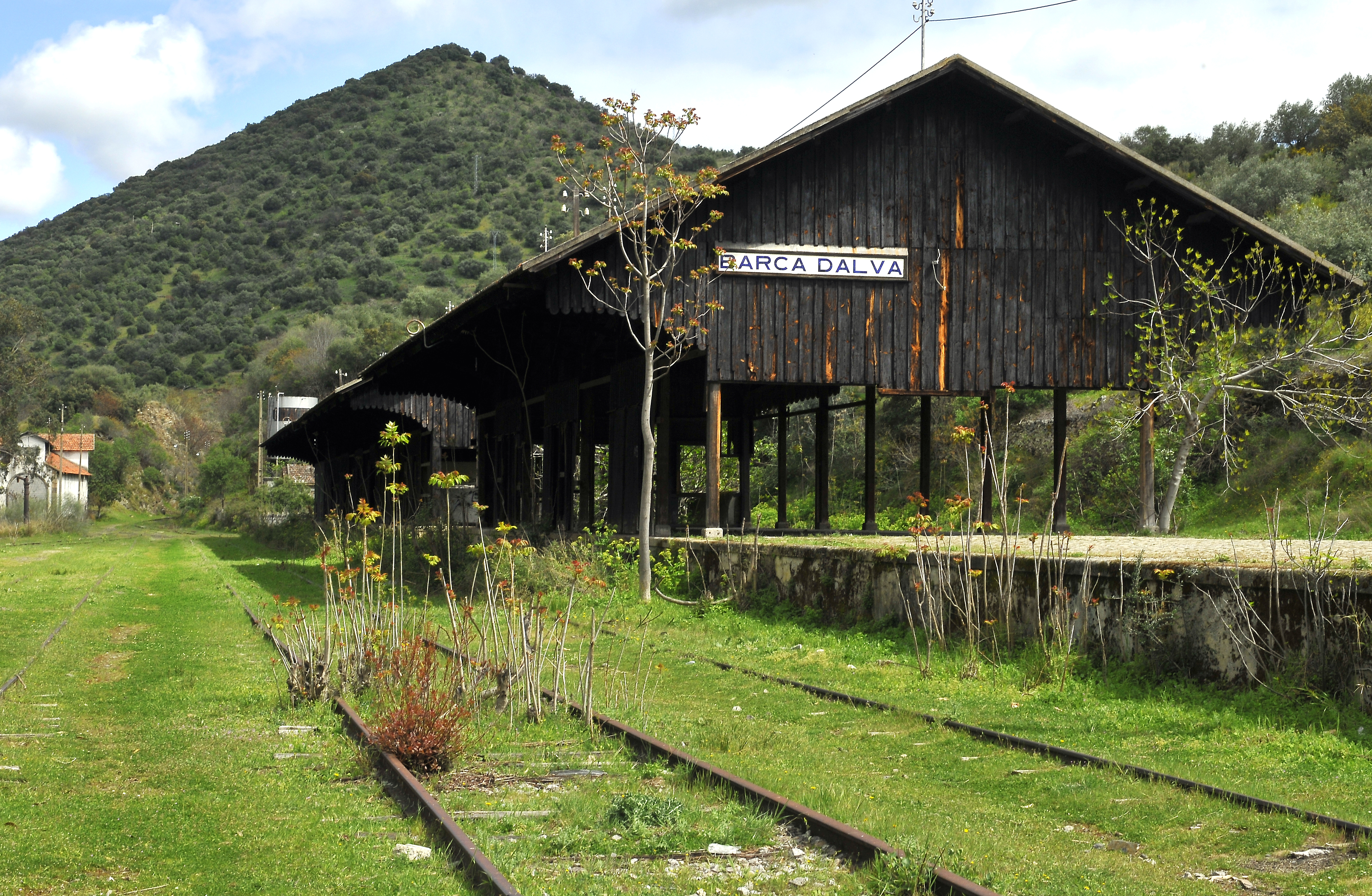 Derelict [c.1985] train station, on the former Porto / Salamanca railway. Barca d'Alva, Figueira de Castelo Rodrigo, Guarda, Portugal